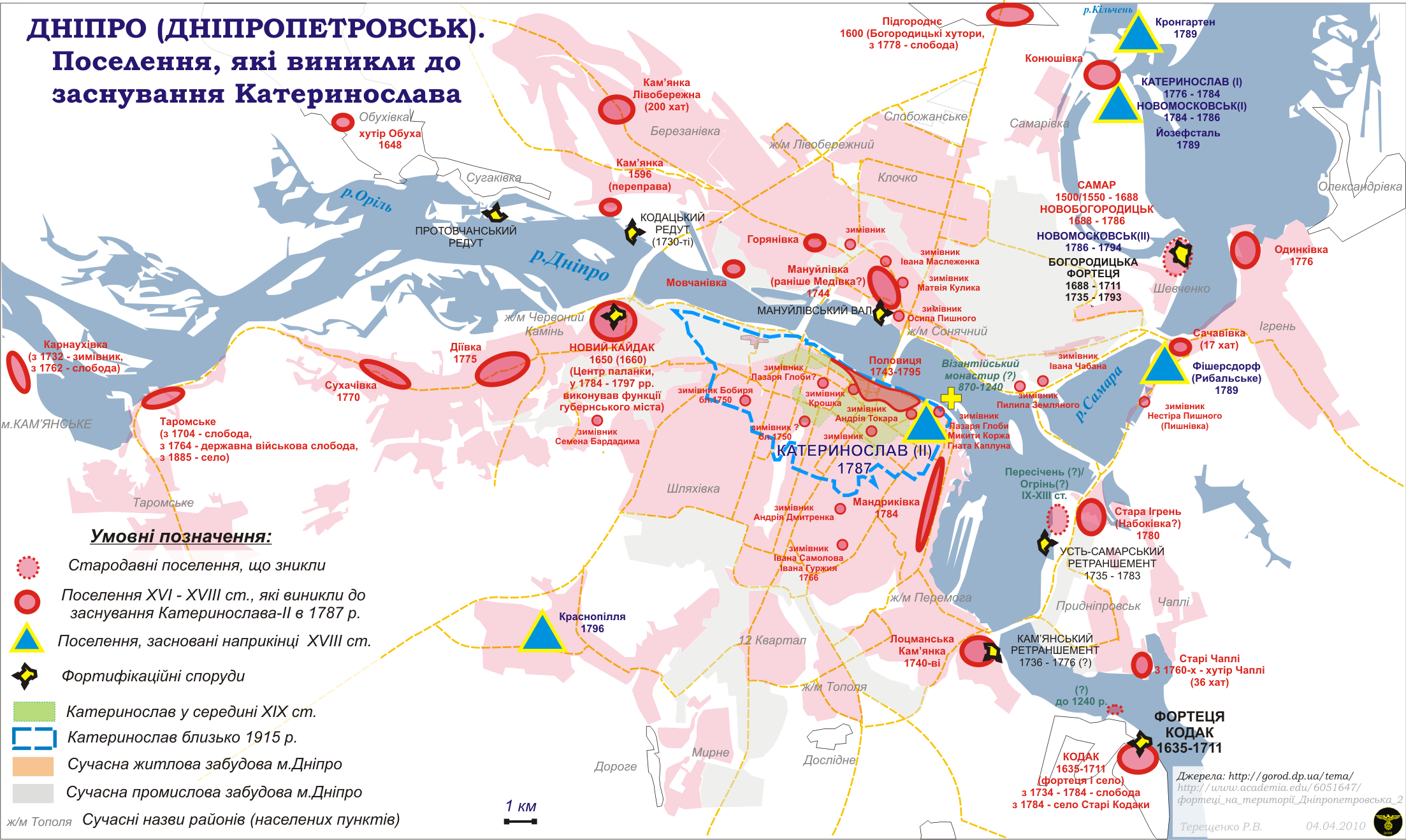 Old settlements in territory of Dnipropetrovsk